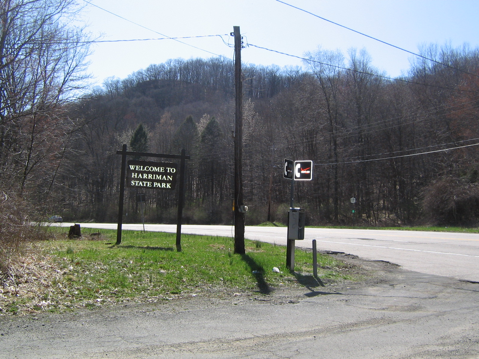 The western terminus of Arden Valley Road at New York State Route 17 at an entrance to Harriman State Park.